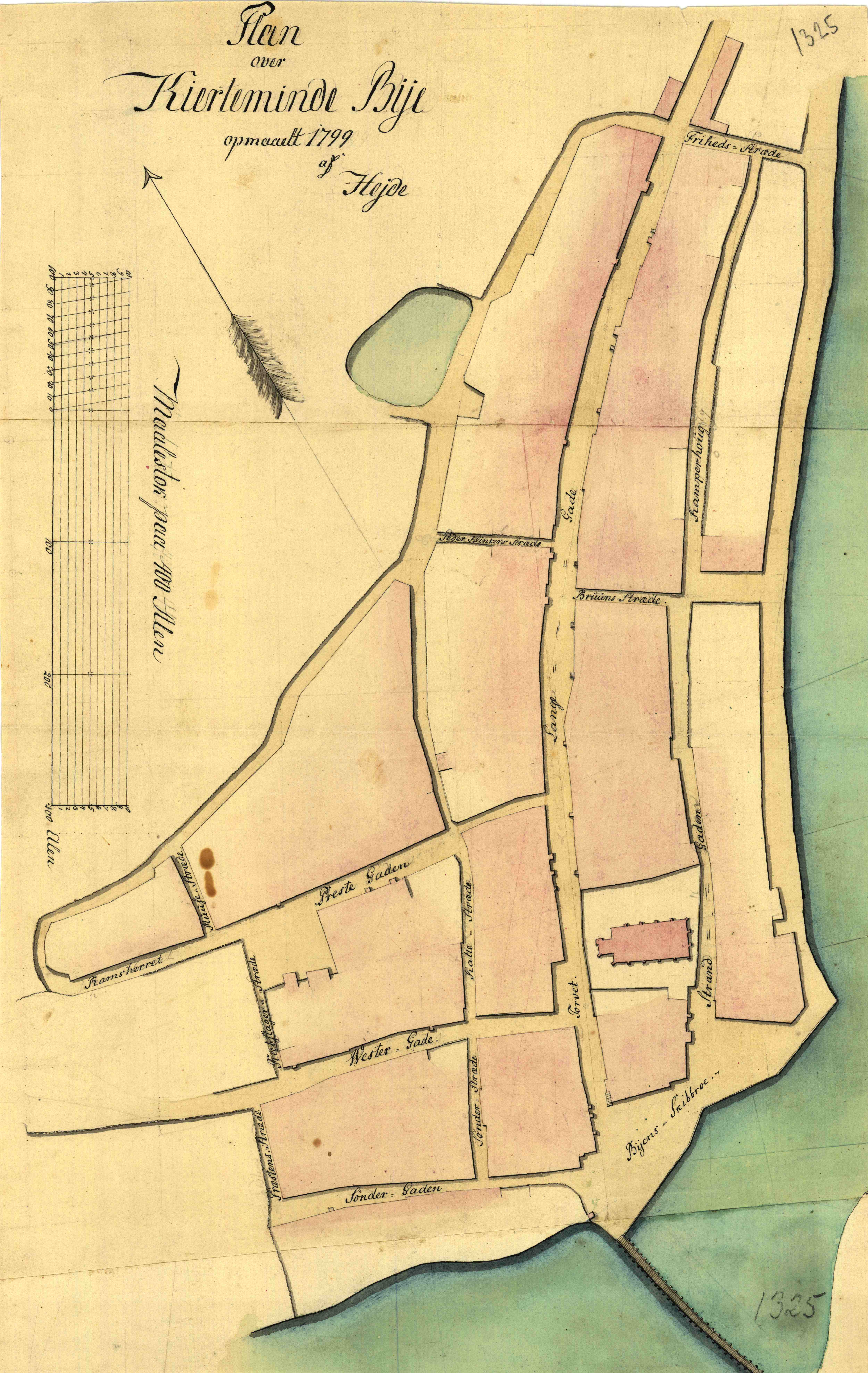 Map of Kerteminde from 1799